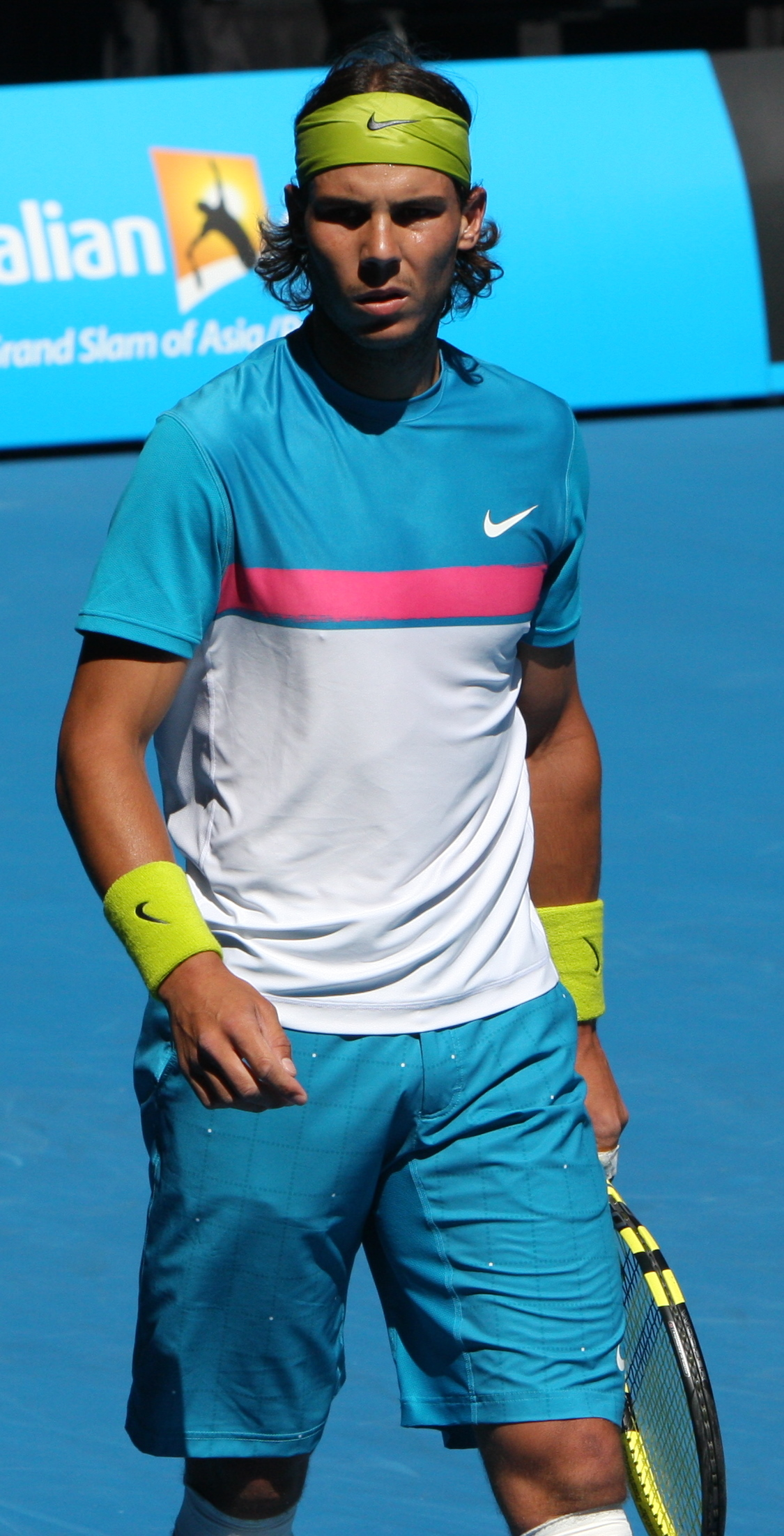 Rafael Nadal at 2009 Australian Open, Melbourne, Australia.